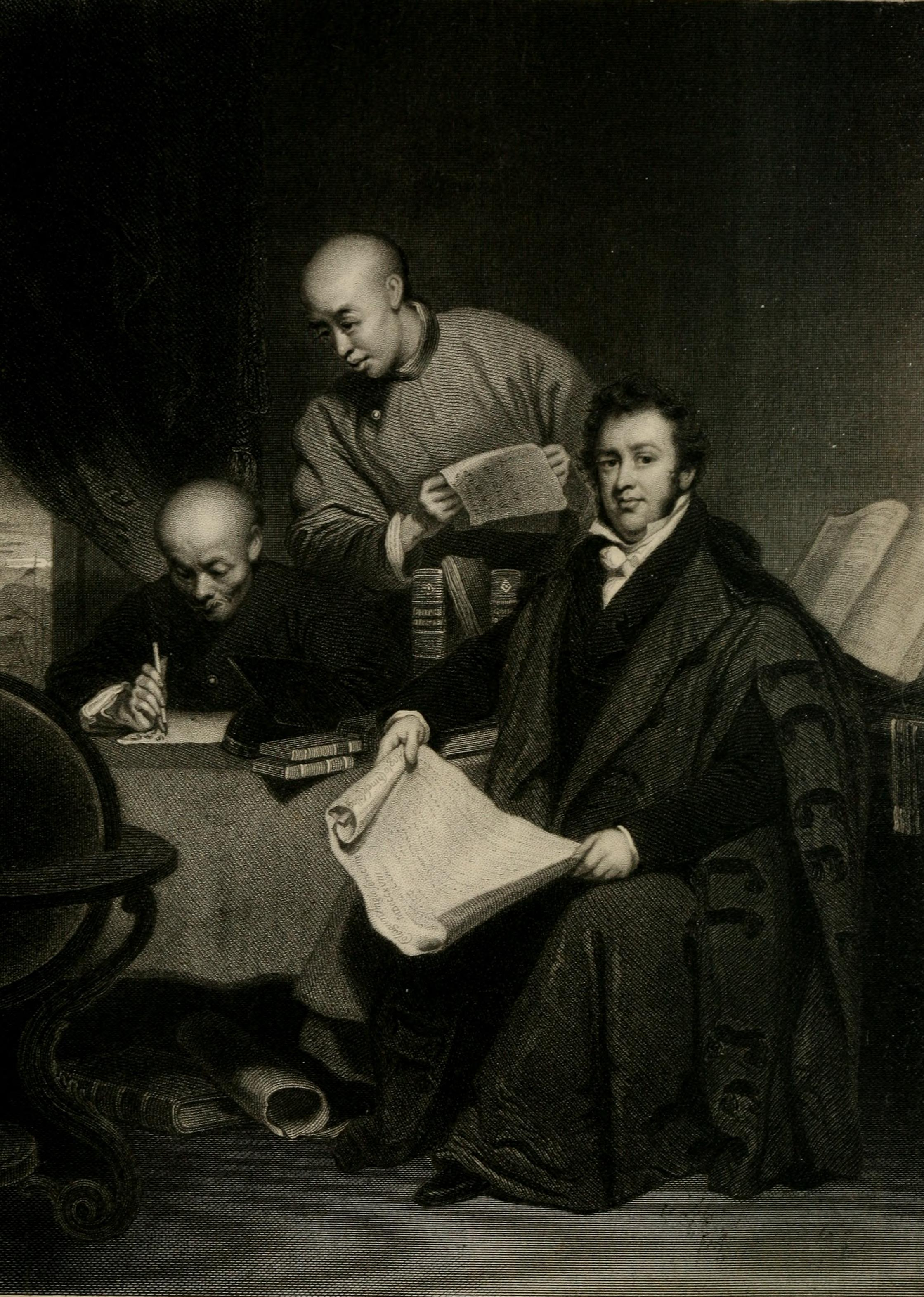 From left to right: Li Shigong, Chen Laoyi, and Robert Morrison. Engraved from a painting by George Chinnery done about 1828. The original painting was destroyed in a fire in 1874. Only printed copies and engravings survive.[1]